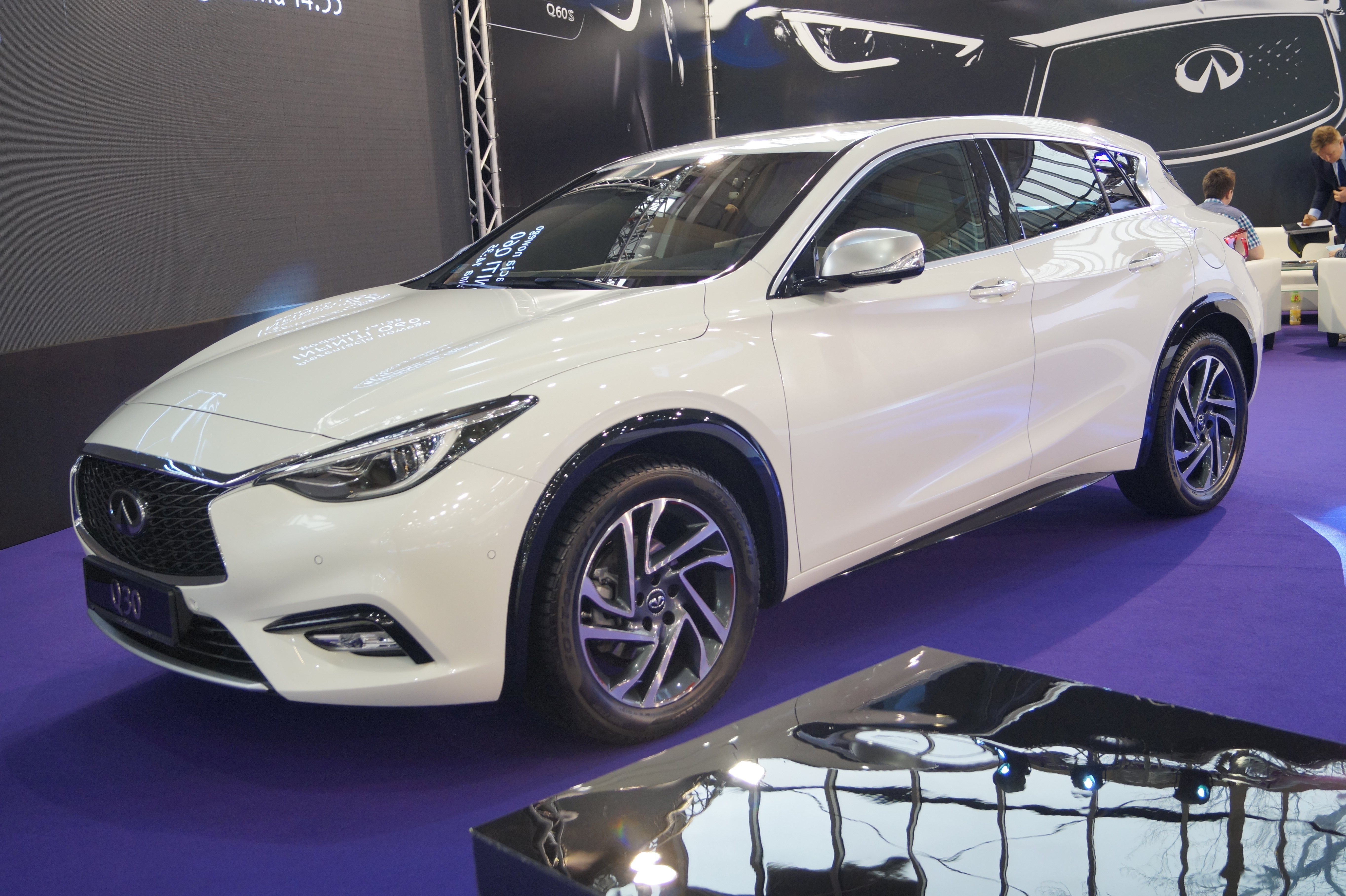 The making of this document was supported by Wikimedia Polska Association, within Wikigrant no. WG 2016-10. English | polski | +/− Infiniti Q30 na Motor Show Poznań 2016